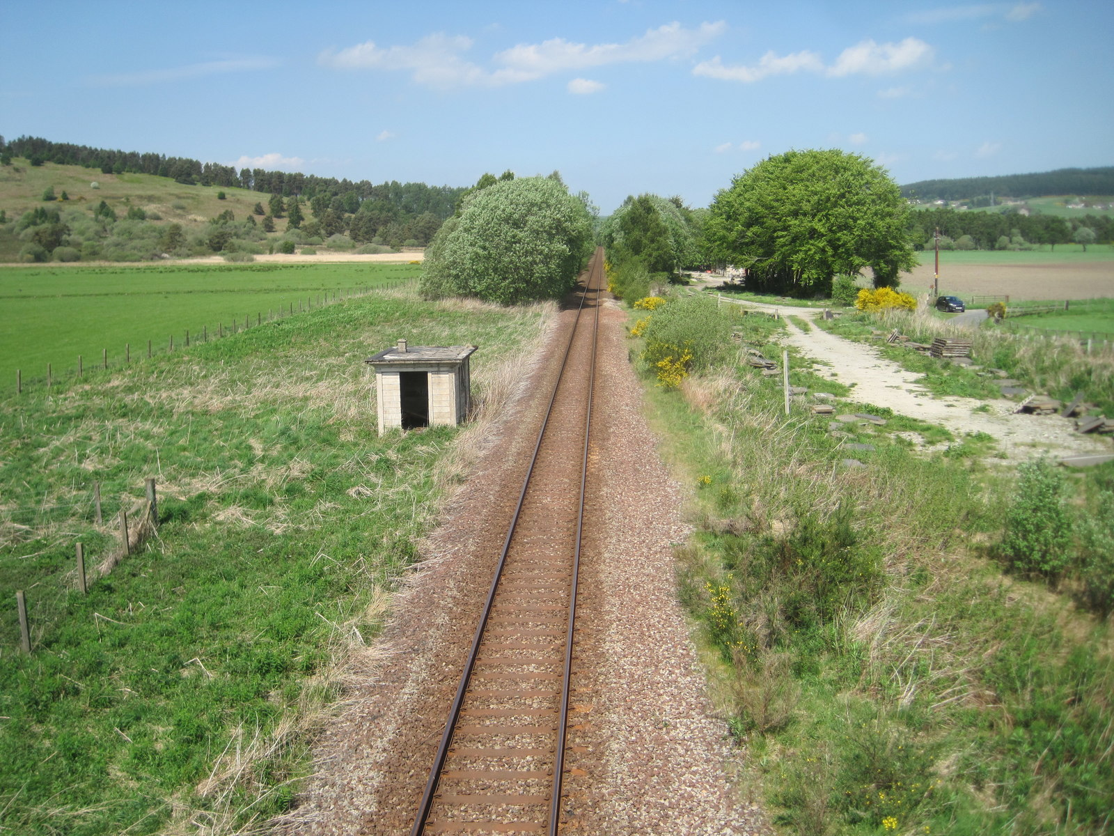 Cairnie Junction railway station (site), AberdeenshireOpened in 1897 by the Great North of Scotland Railway on its line from Aberdeen to Keith, this station was the junction for the Moray Coast line. The station closed in 1968. The line was later singled. View north towards Grange and Keith. The island platform was in the trees in the middle distance. No trace apparently remains.